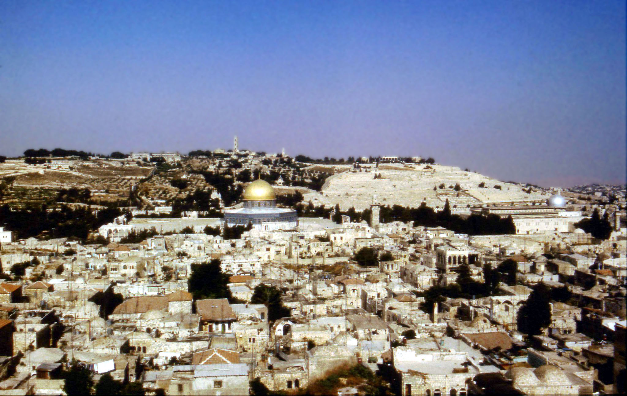 The Old City of Jerusalem.